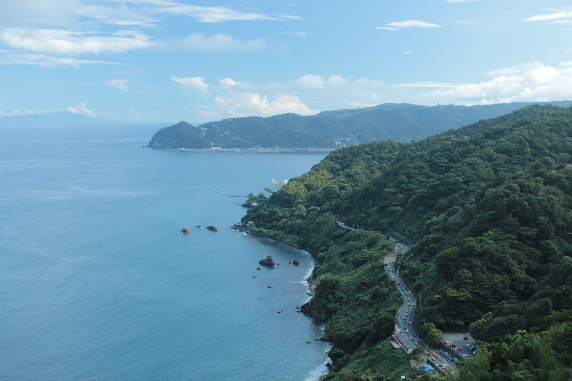 Coast of Atami and Japan National Route 135.